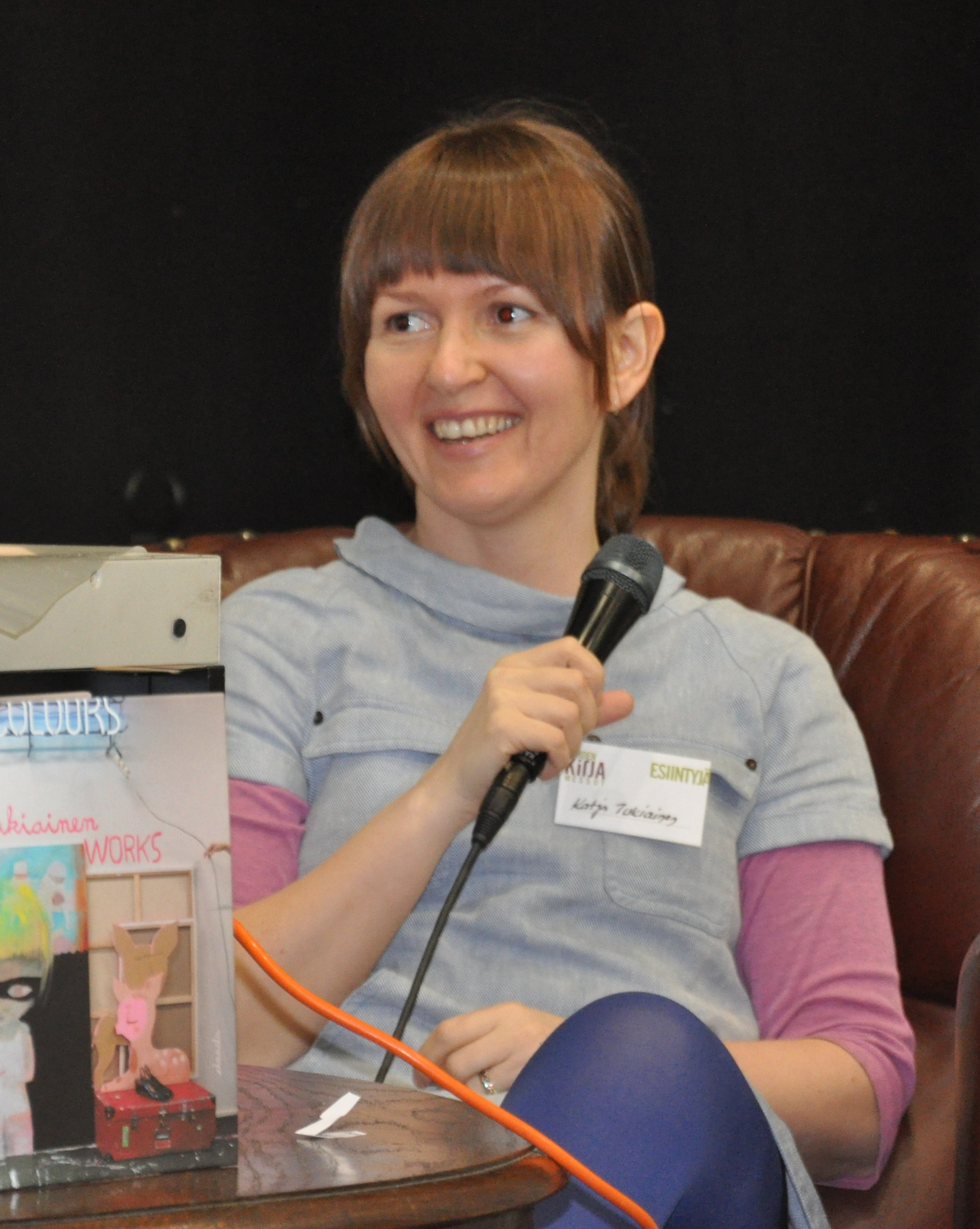 Finnish comic artist and painter Katja Tukiainen at the Lahti Book Fair 2009.